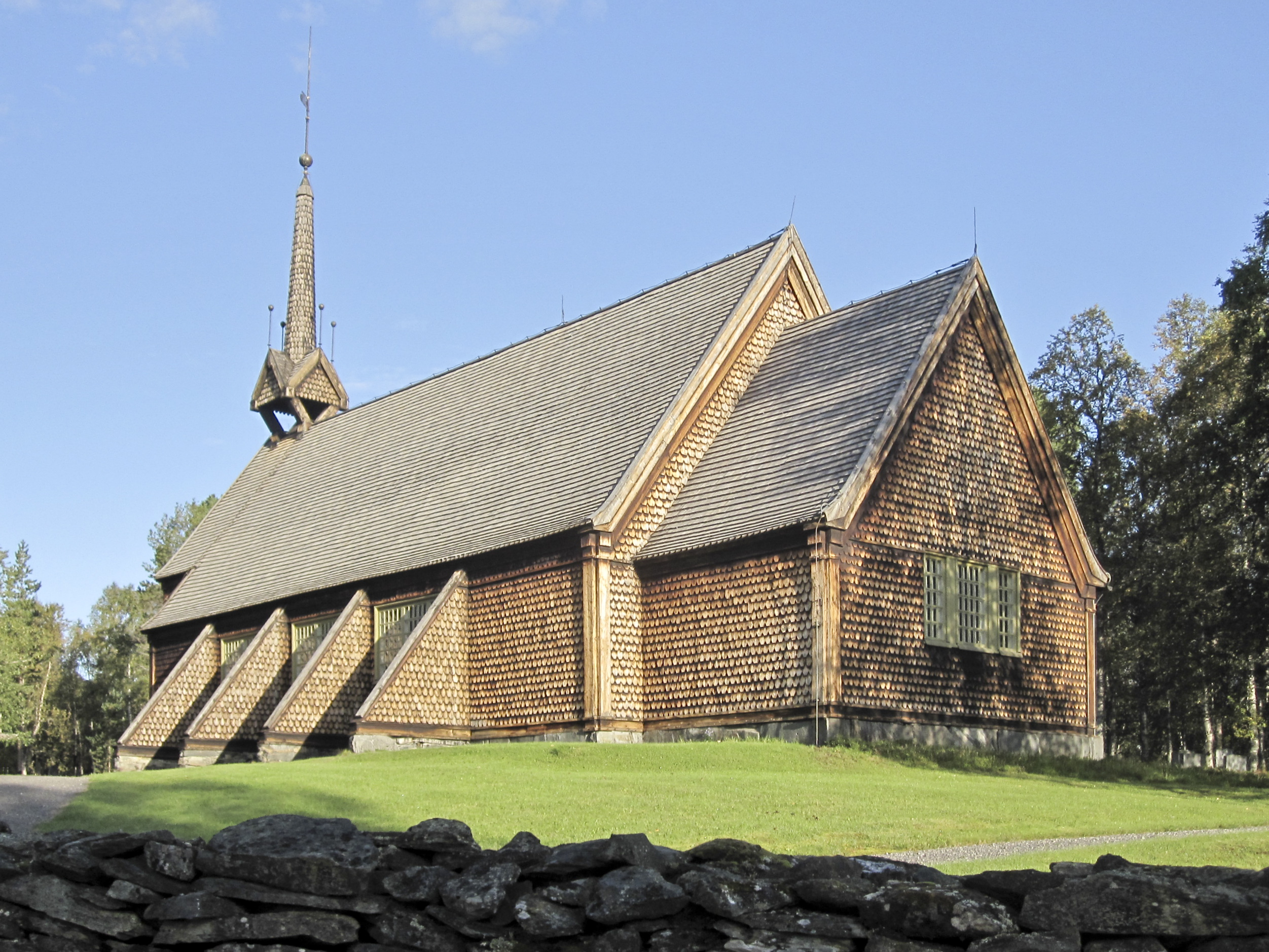 Ammarnäs church, Ammarnäs, Sorsele, Sweden.